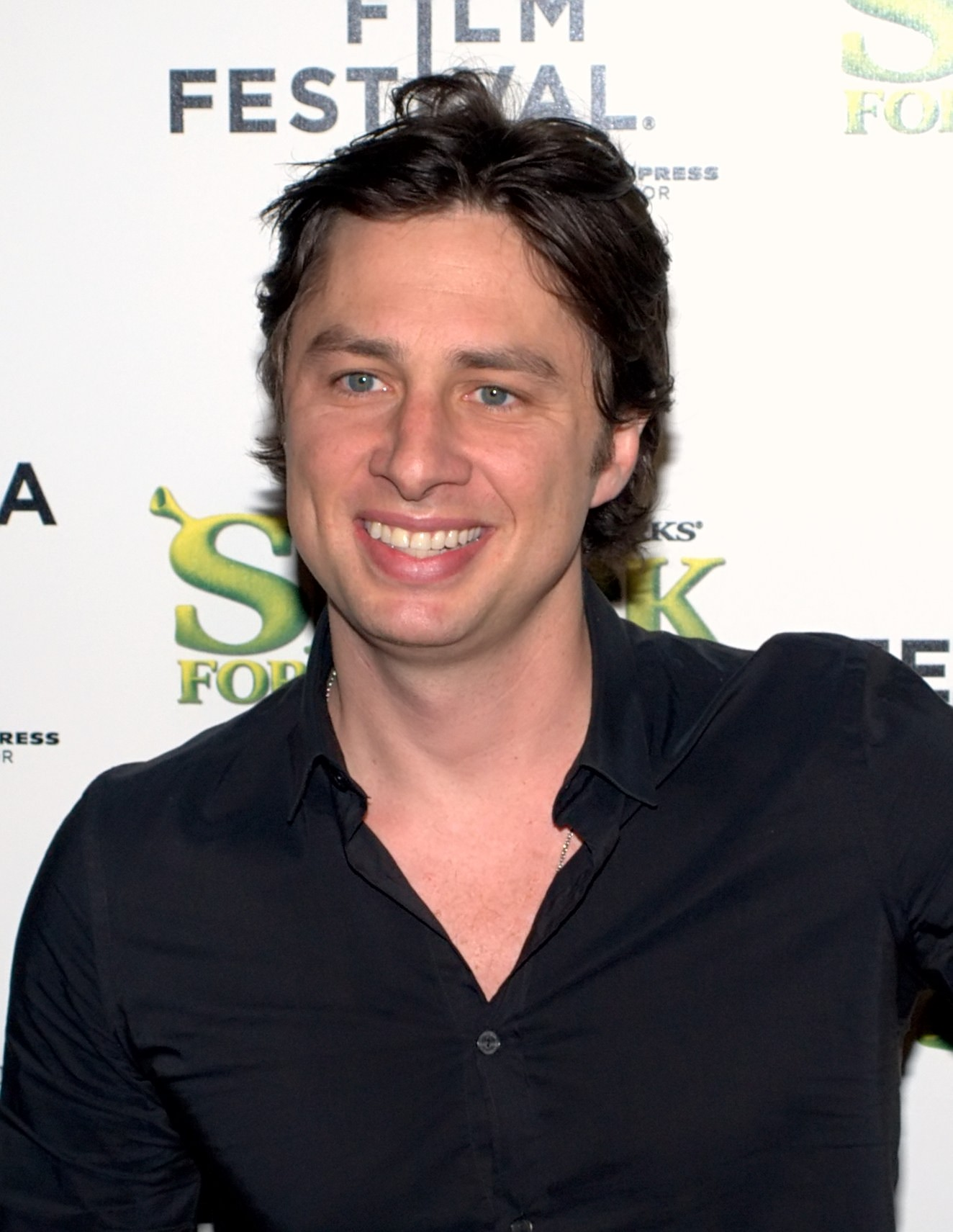 Zach Braff at Tribeca Film Festival 2010